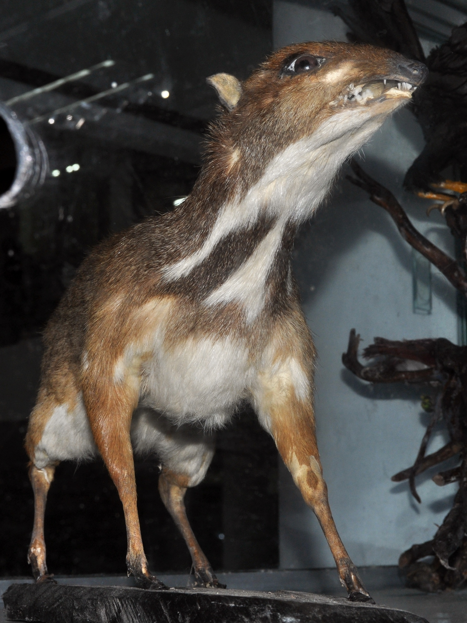 Tragulus javanicus, stuffed animal; collection of Gunung Gede Pangrango Nat. Park of West Java, Indonesia